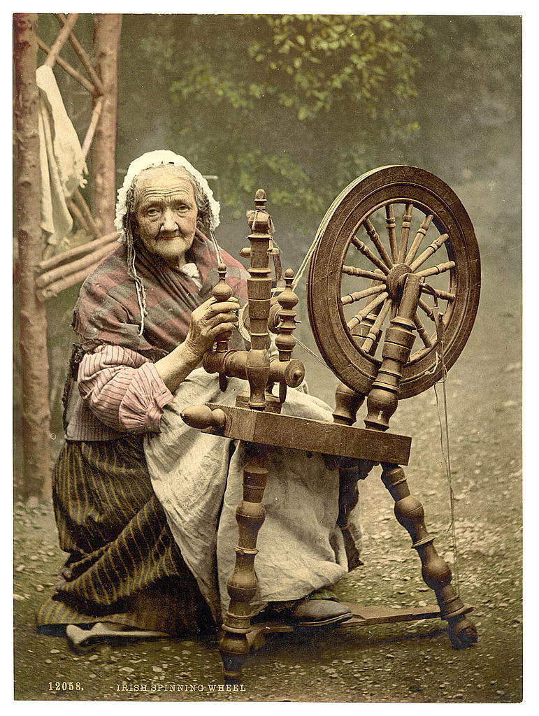 Irish spinner and spinning wheel. County Galway, Ireland. Note: This is a posed nostalgia photograph, since the spinning wheel had gone out of use in almost all practical everyday contexts for a half-century or more by the time this picture was taken.